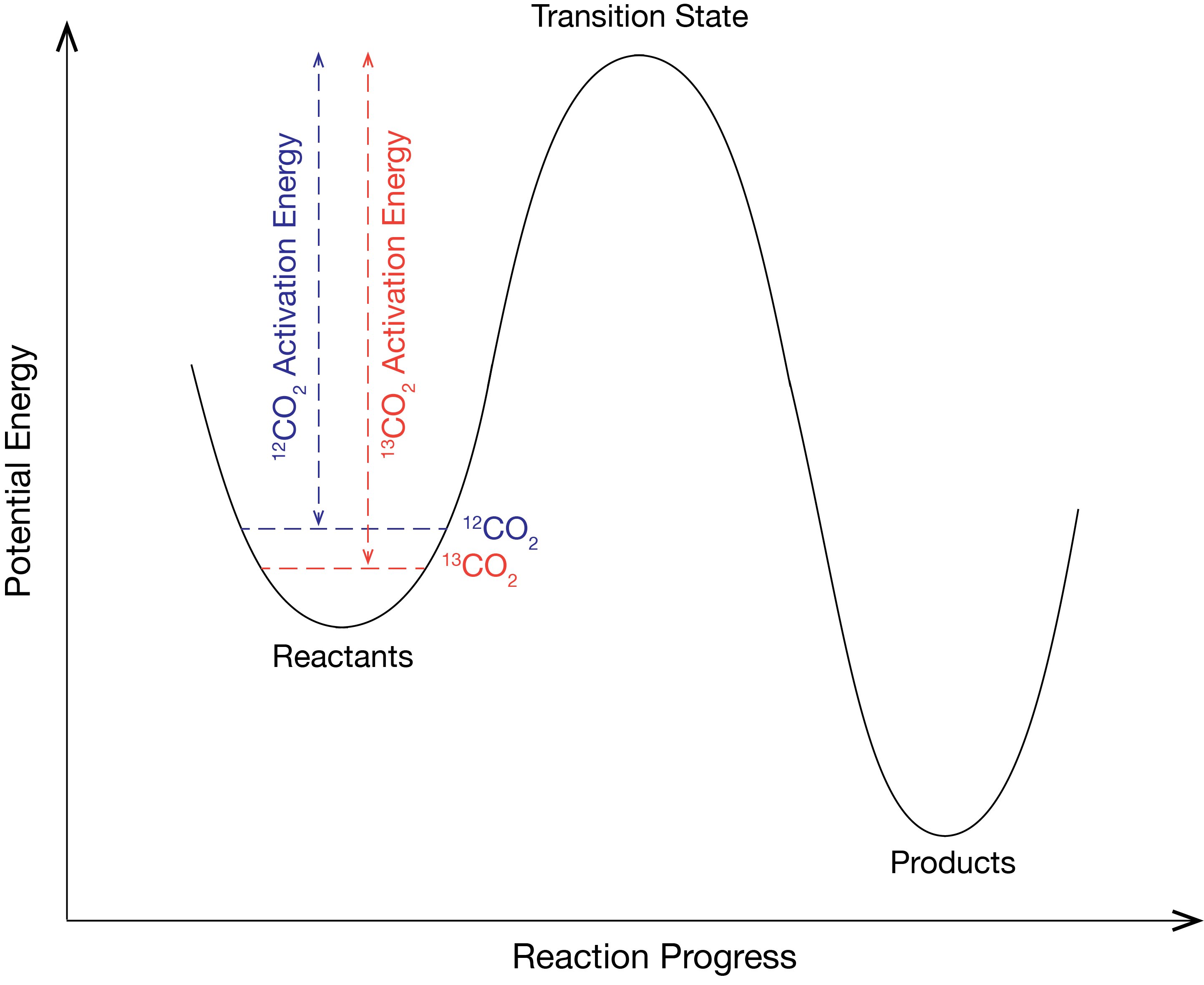 The difference in activation energy required for an istopically heavy or light molecule of CO2 to proceed through a reaction.